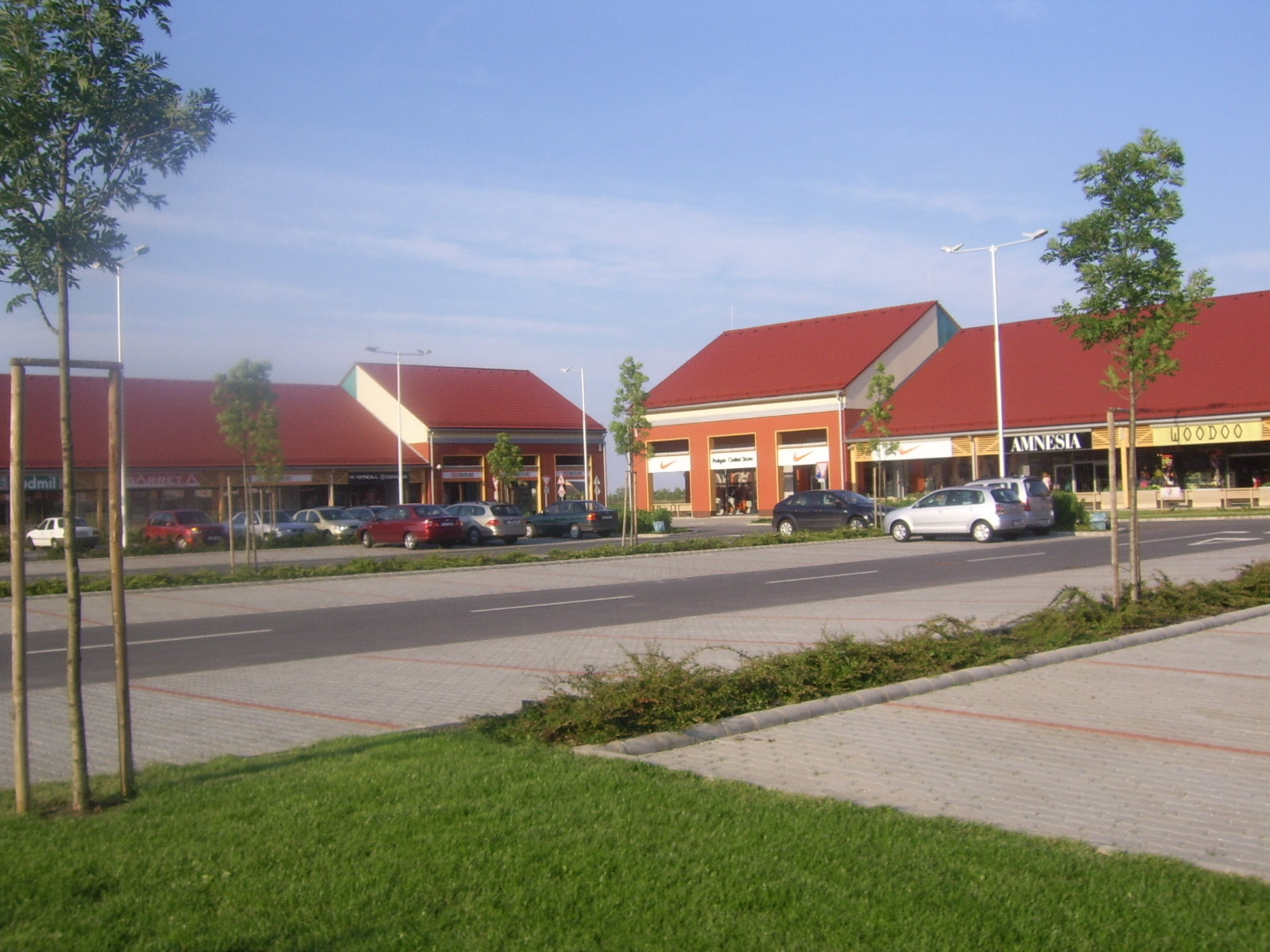 The M3 Outlet Center is near Polgár